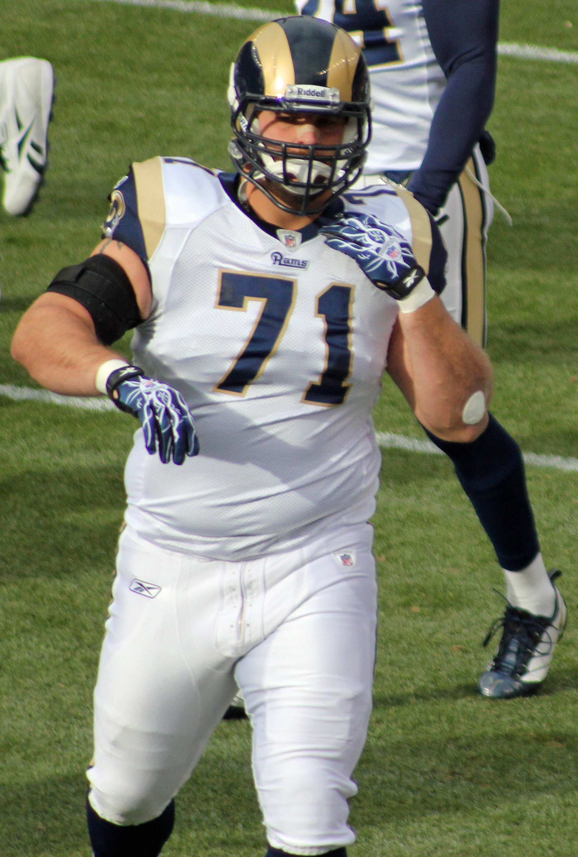 Gary Gibson, a player on the Saint Louis Rams American football team.